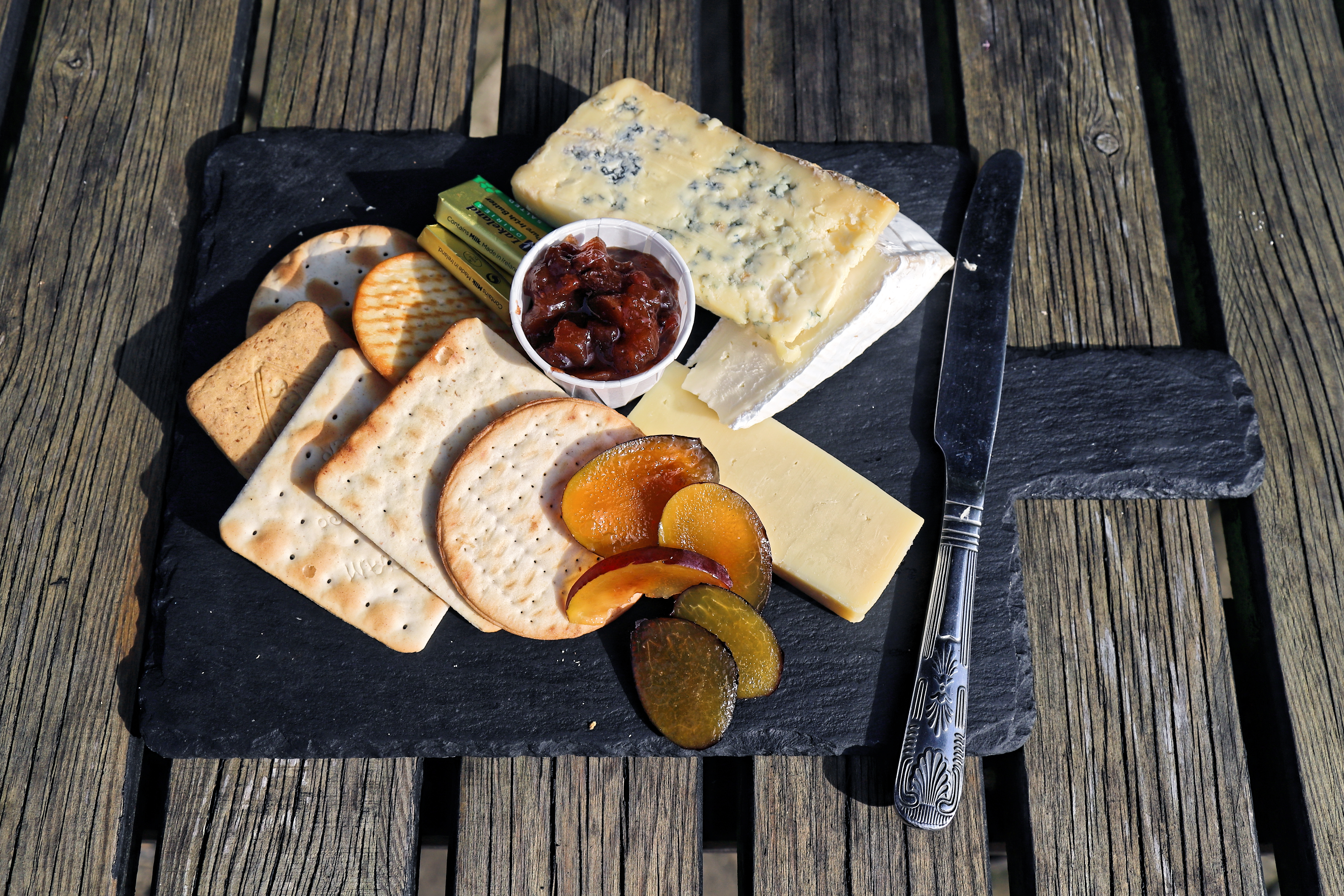 Cheeseboard platter with Stilton, cheddar and brie cheeses and cream cracker biscuits, pickle and fresh plum garnish at the Grade II listed 17th-century Black Horse Inn on Nuthurst Street in Nuthurst, West Sussex, England.Camera: Canon EOS 6D Mark II with Canon EF 24-105mm F4L IS USM lens.Software: File lens-corrected, optimized, perhaps cropped, with DxO OpticsPro 11 Elite, and likely further optimized with Adobe Photoshop CS2.